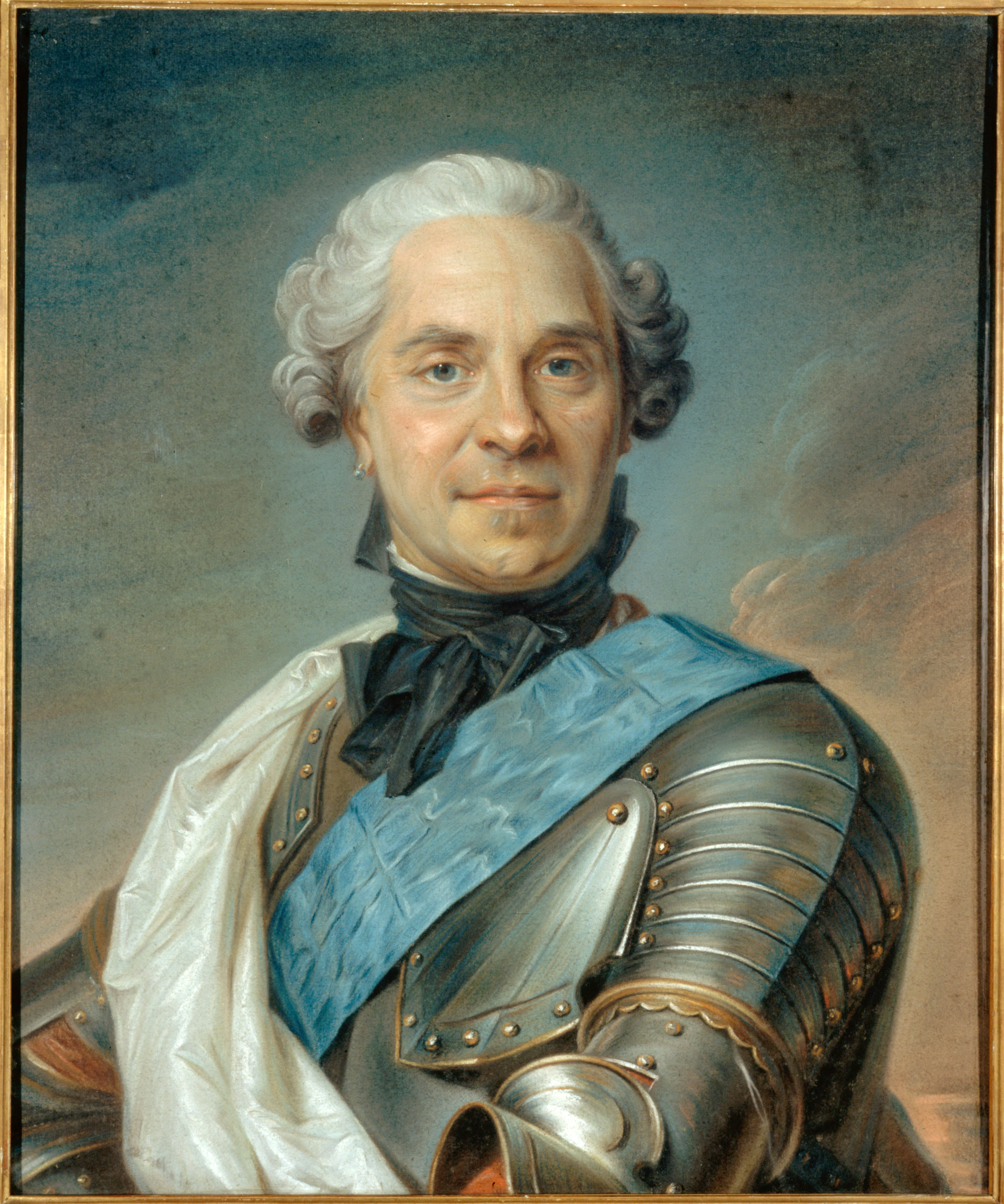 Portrait of Maurice de Saxe (1696 -1750), Marshal of France